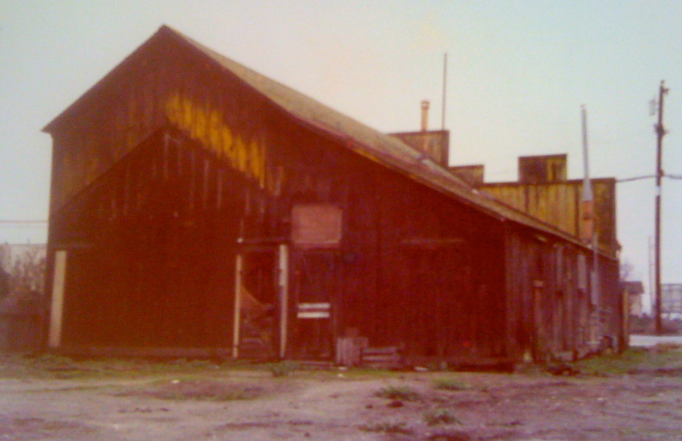 Western Building, Rear View